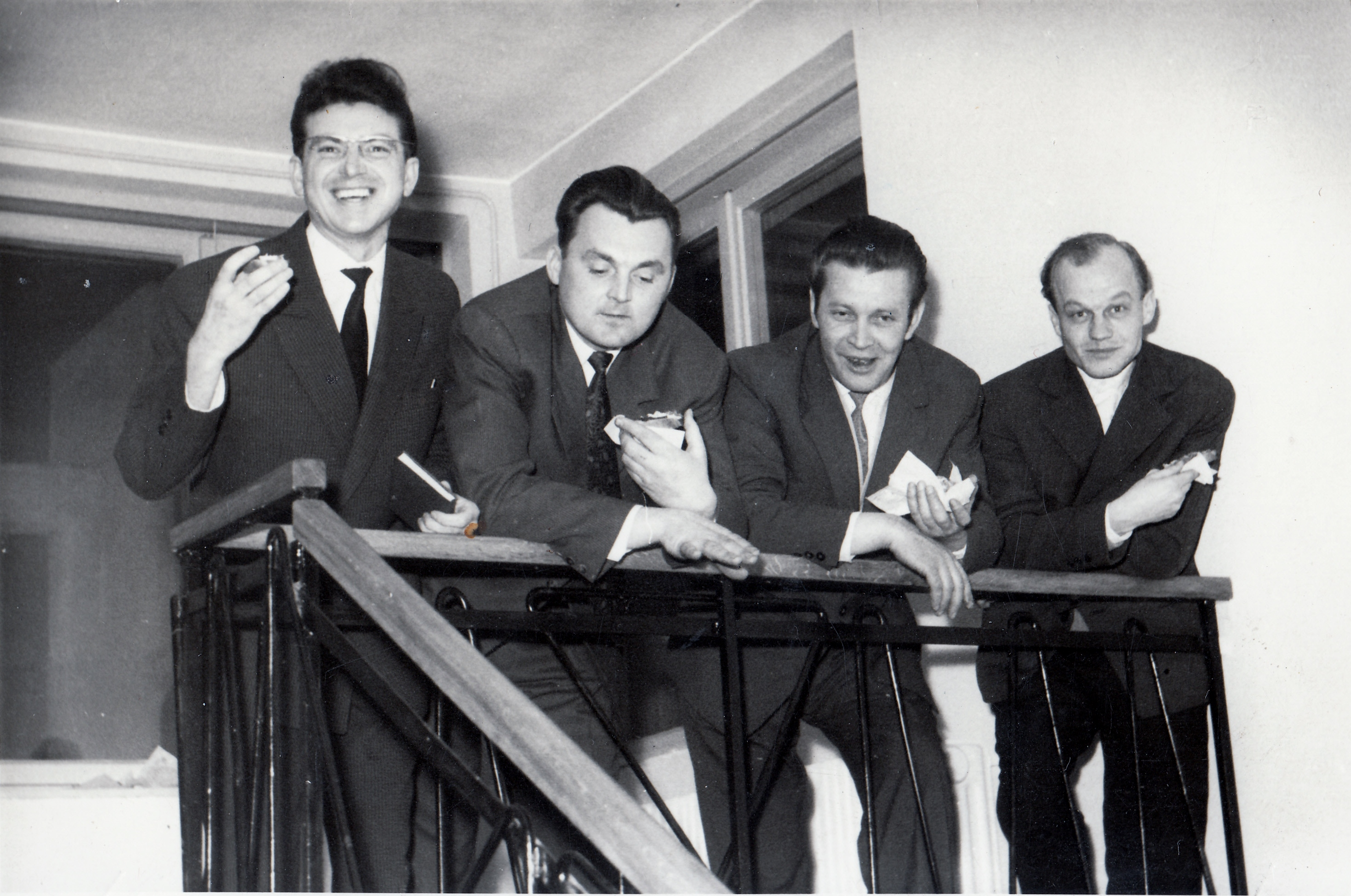 A photograph of (from left to right) Pavel Mučaji (poet, prose writer and children's author), Daniel Pixiades (teacher and writer), Michal Babinka (writer, journalist and translator) and Juraj Tušiak (poet, prose writer and translator) (1960). Inventory number 3218. Srpski (latinica): Fotografija (s leva na desno) Pavela Mučaja (pesnika, proznog pisca i autora za decu), Danijela Piksiadesa (učitelja i književnika), Mihala Babinke (književnika, novinara i prevodioca) i Juraja Tušjaka (pesnika, proznog pisca i prevodioca) (1960). Inventarski broj 3218 .